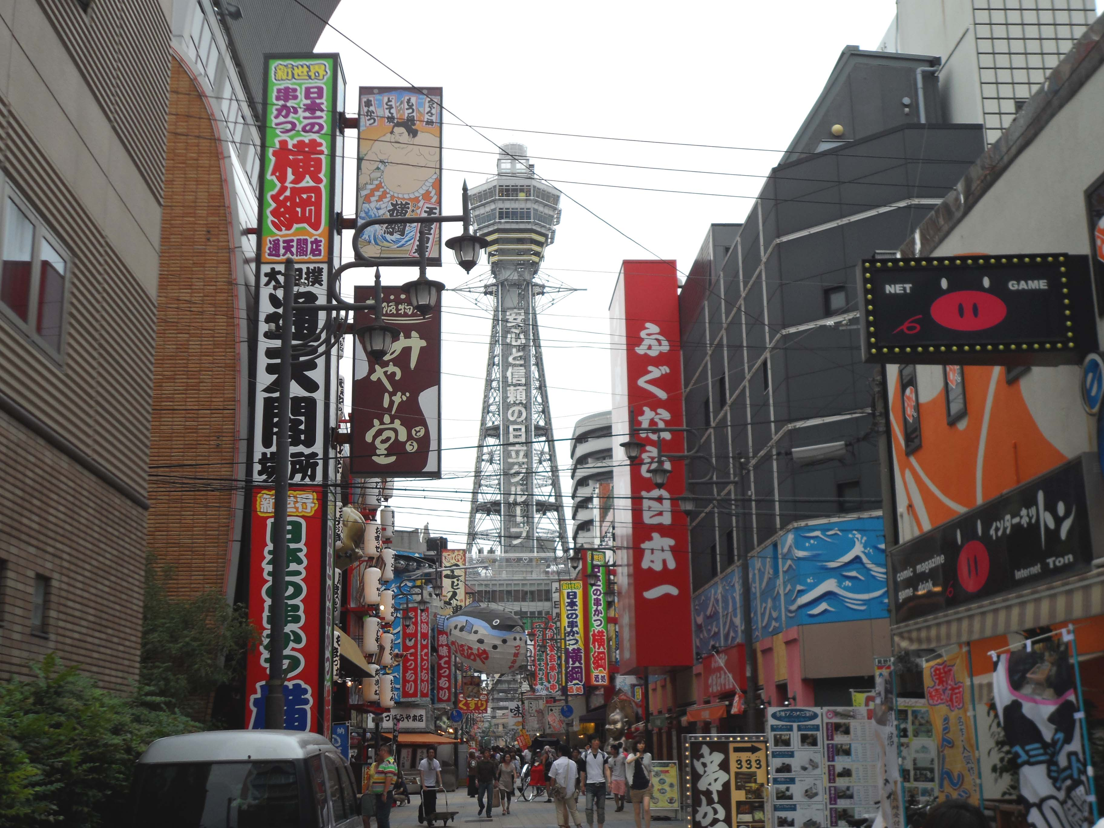 Tsūtenkaku & Shinsekai, Osaka